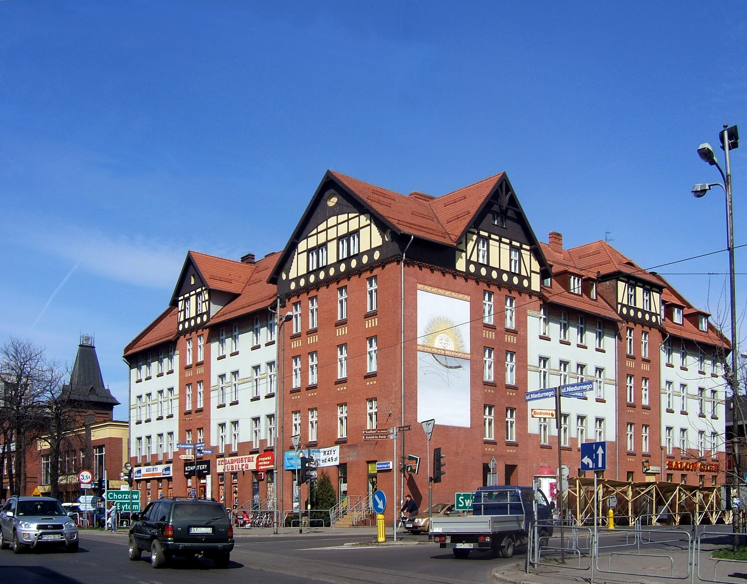 Building in Nowy Bytom, a district of Ruda Śląska.